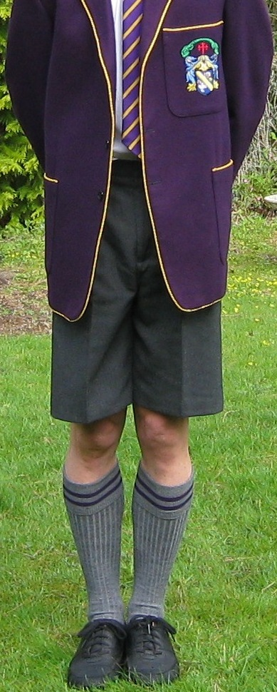 A UK scholboy wears a traditional grey school shorts uniform